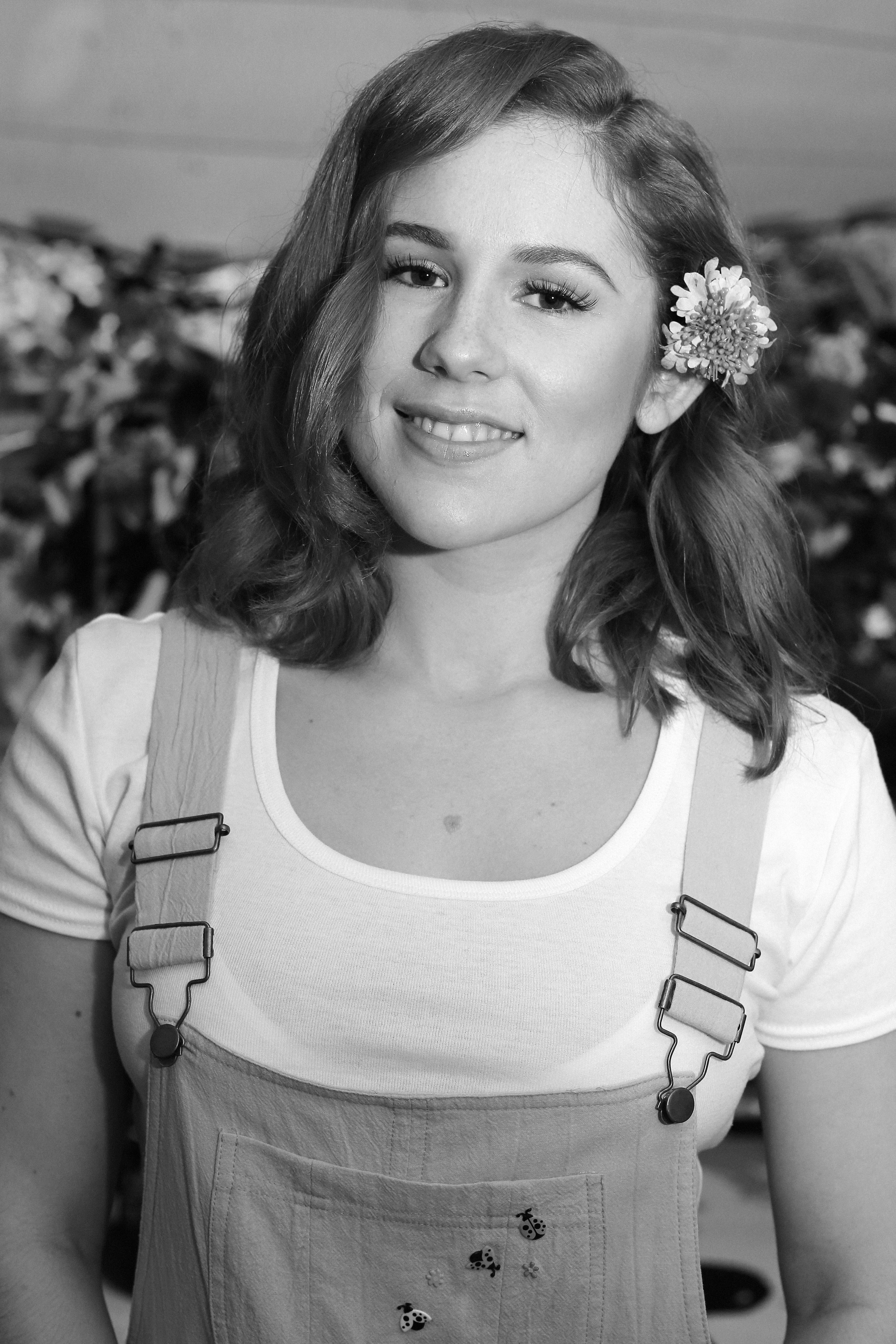 Kathleen Anne Brien (born 8 May 1989), better known as Katy B, is an English singer and songwriter. Photo by : Walterlan Papetti